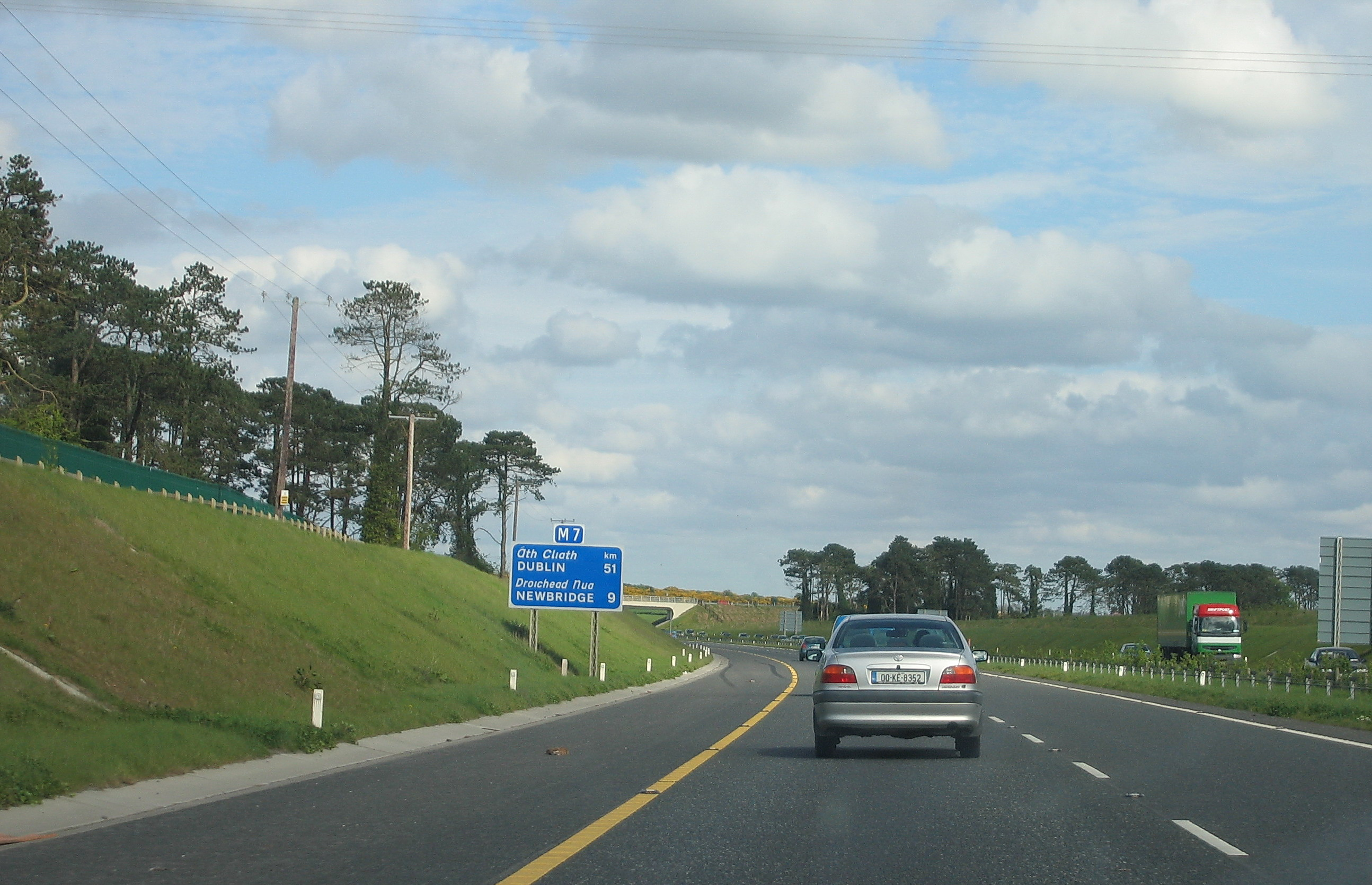 M7 Kildare Town by-pass heading north, County Kildare, Ireland (Sarah777 14:50, 13 April 2007 (UTC))